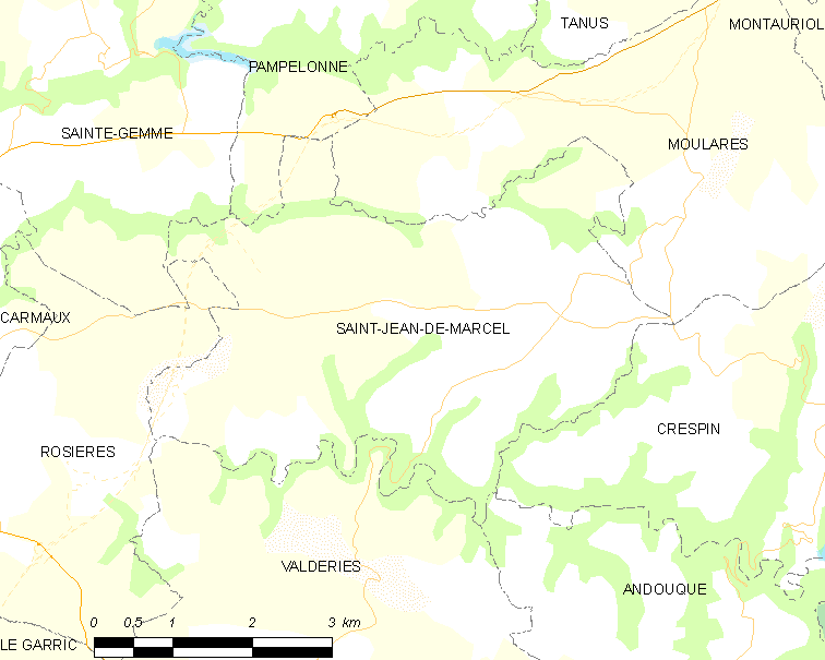 Map of French municipality Saint-Jean-de-Marcel